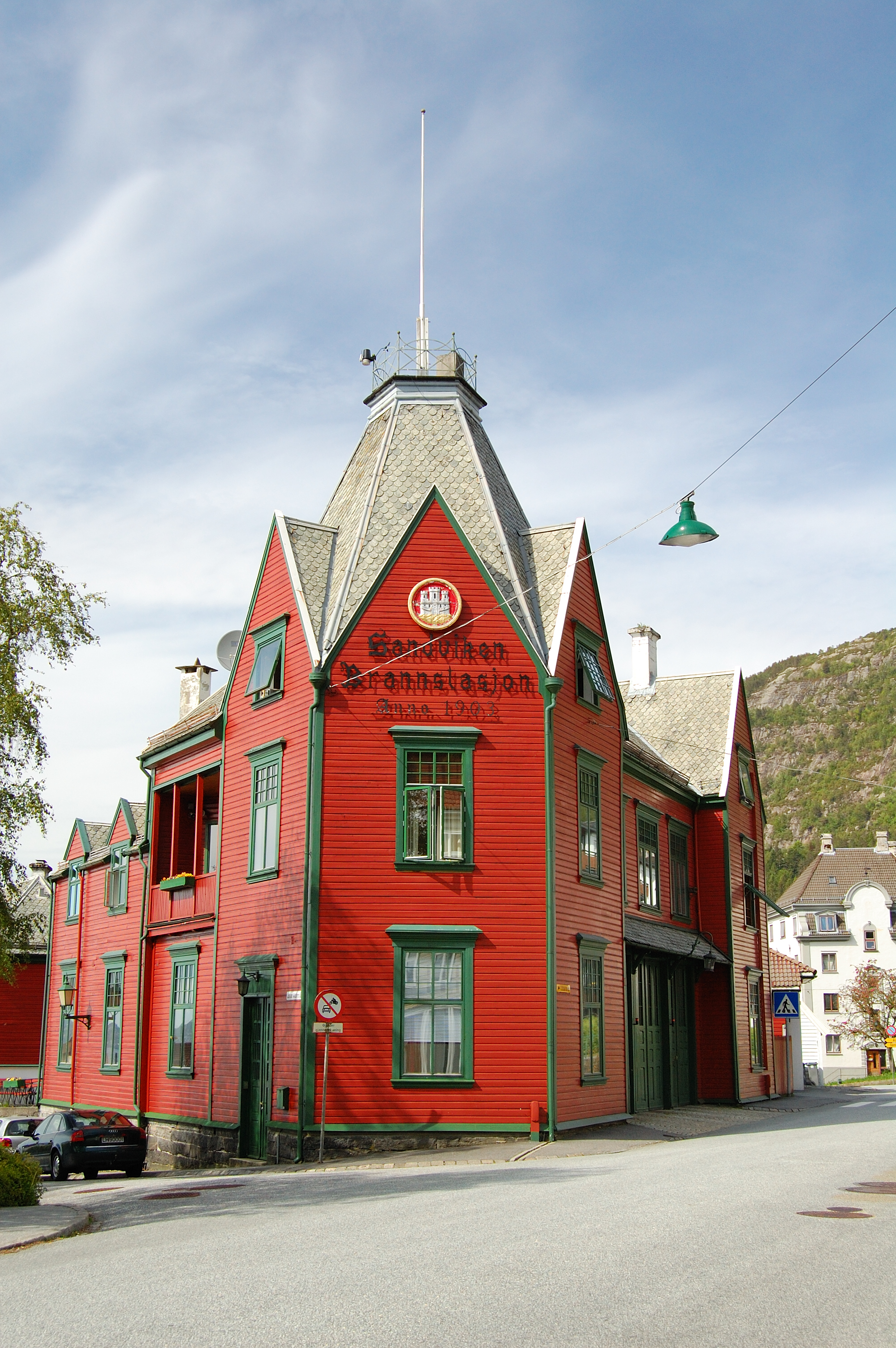 A fire station in Sandviken borough in Bergen, Norway.